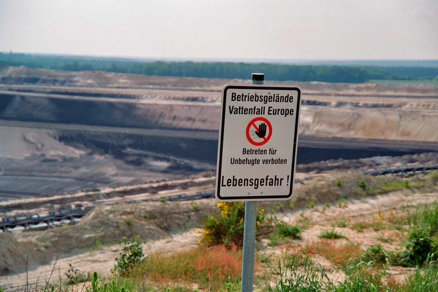 Open pit mining at Welzow-Süd, Landkreis Spree-Neiße, Brandenburg, Germany. Vattenfall warning sign.